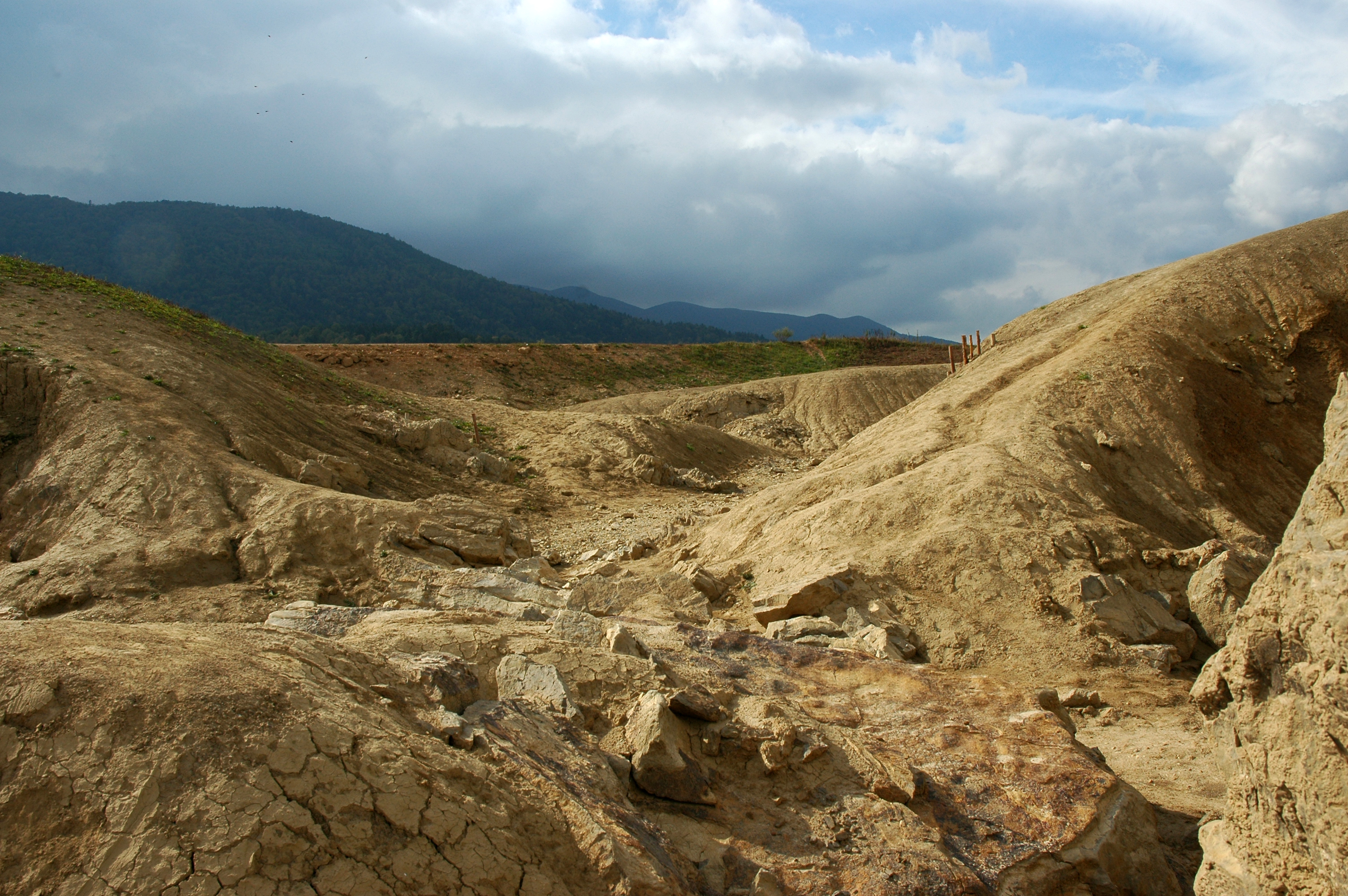 polje, “Cerknisko jezero” (jezero lake), one of several in the karstic area of Slovenia. Cerknisko jezero is a “closed depression”, its (abundant) water is solely drained through natural ponors (sinkholes in the ground, cracks and larger subterranean water ways). The polje is without water management. In wet seasons waters may rise and flood the terrain to become an intermittent lake. In October the water had totally vanished.